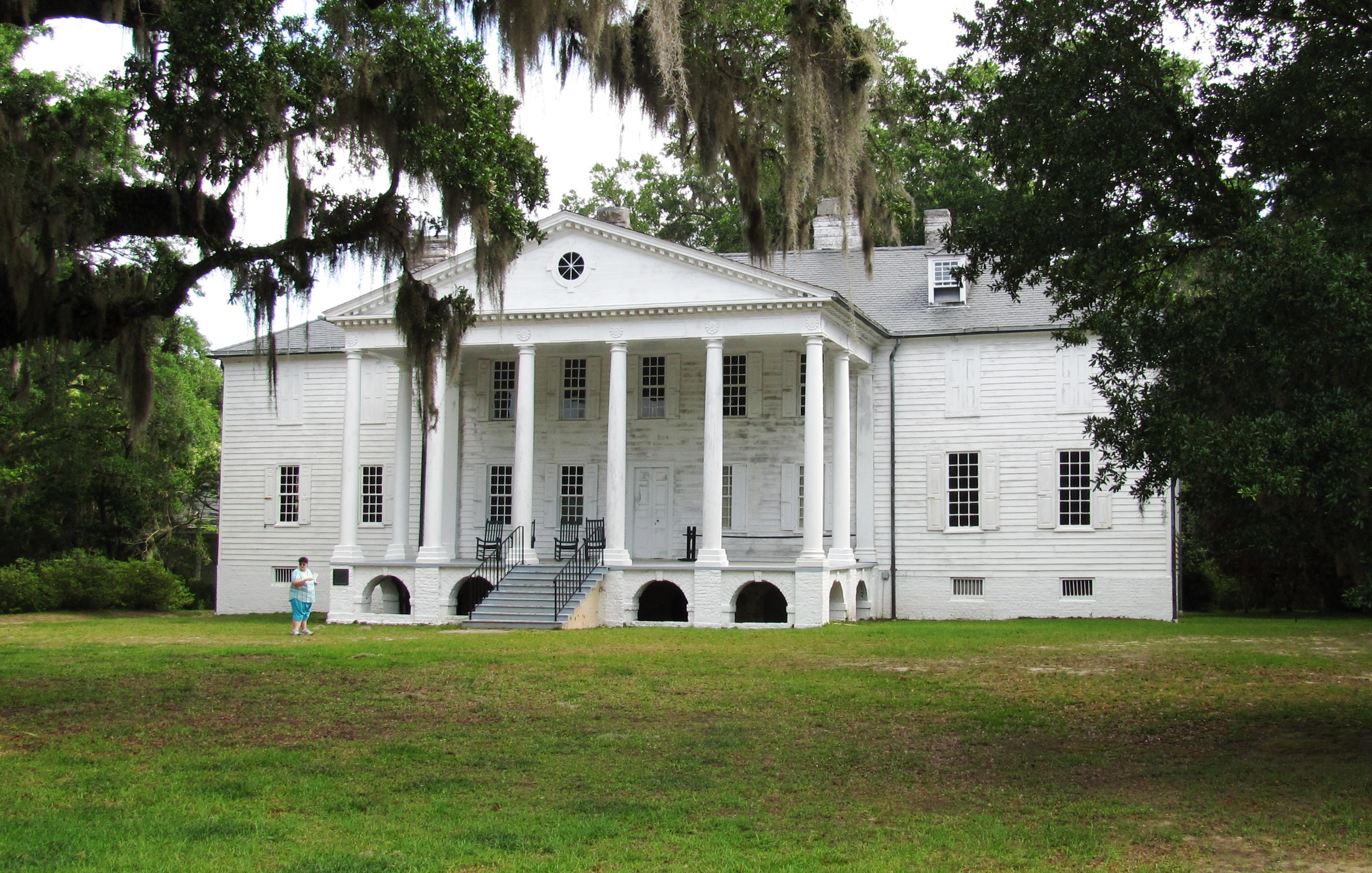 The south facade of the Hampton Plantation house in Charleston County, South Carolina, USA. The branches of the George Washington Oak obstruct the view on the upper left of the image.